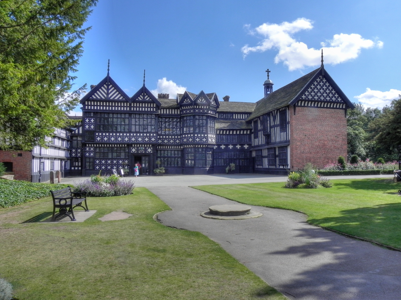 Bramall Hall viewed from the west, showing the main entrance, the courtyard and the north and south wings. The Great Hall is in the centre.